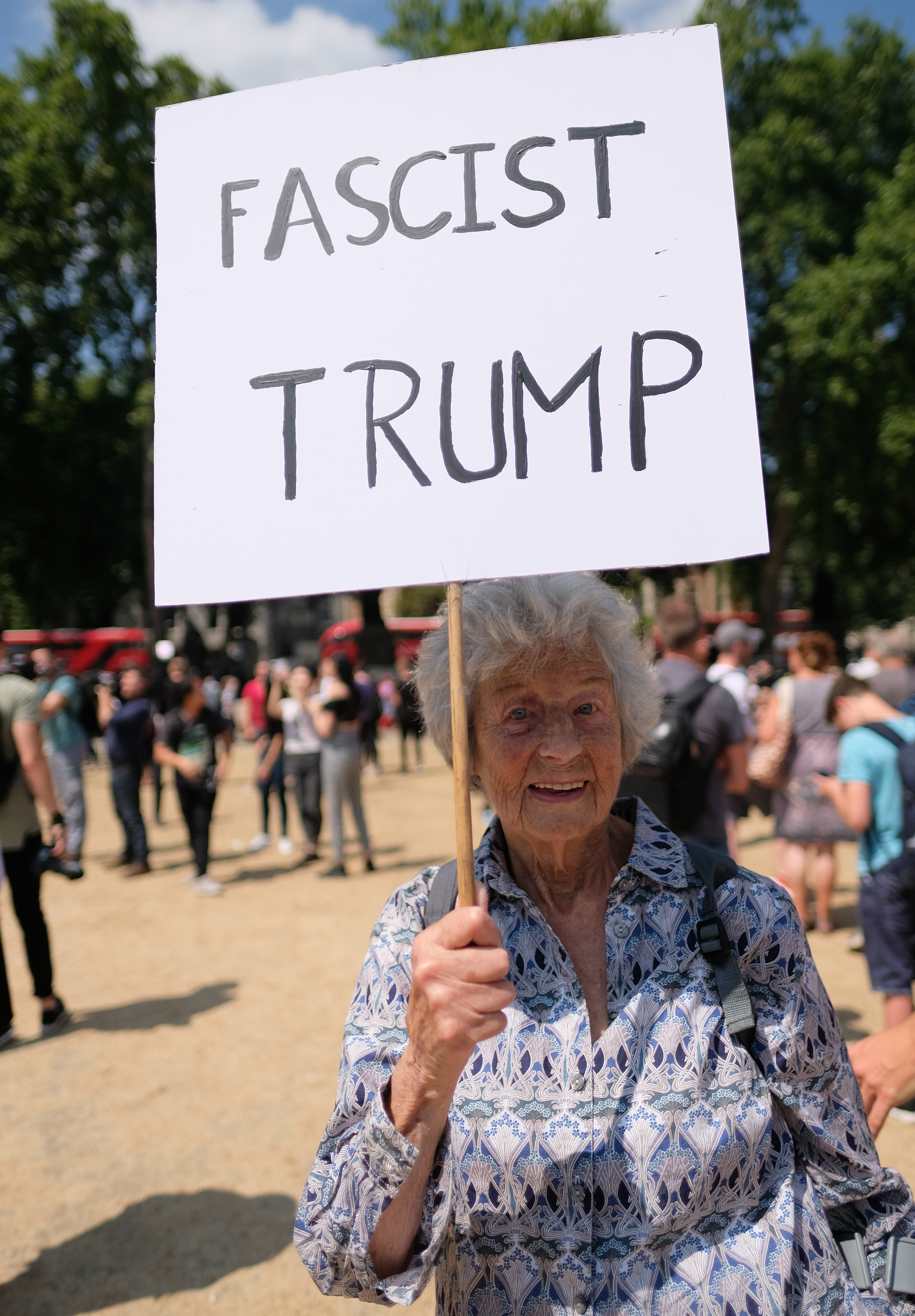 Demonstrations and protests against the presidency of Donald Trump in London